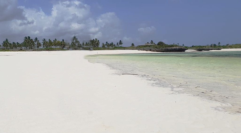 Watamu Beach, Kenya